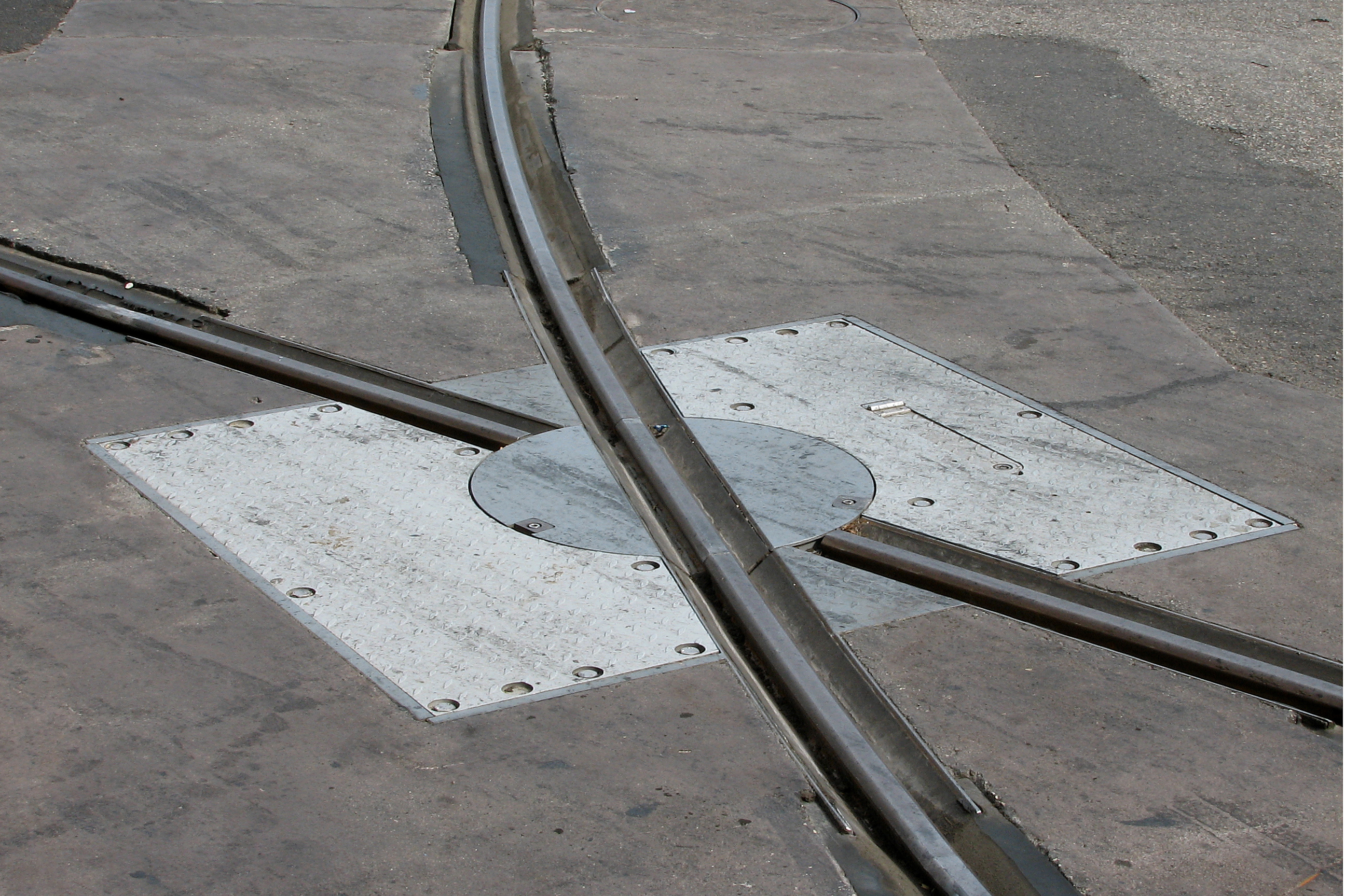 A Translohr crossing, installed at Stazione FS junction along the Padova line.